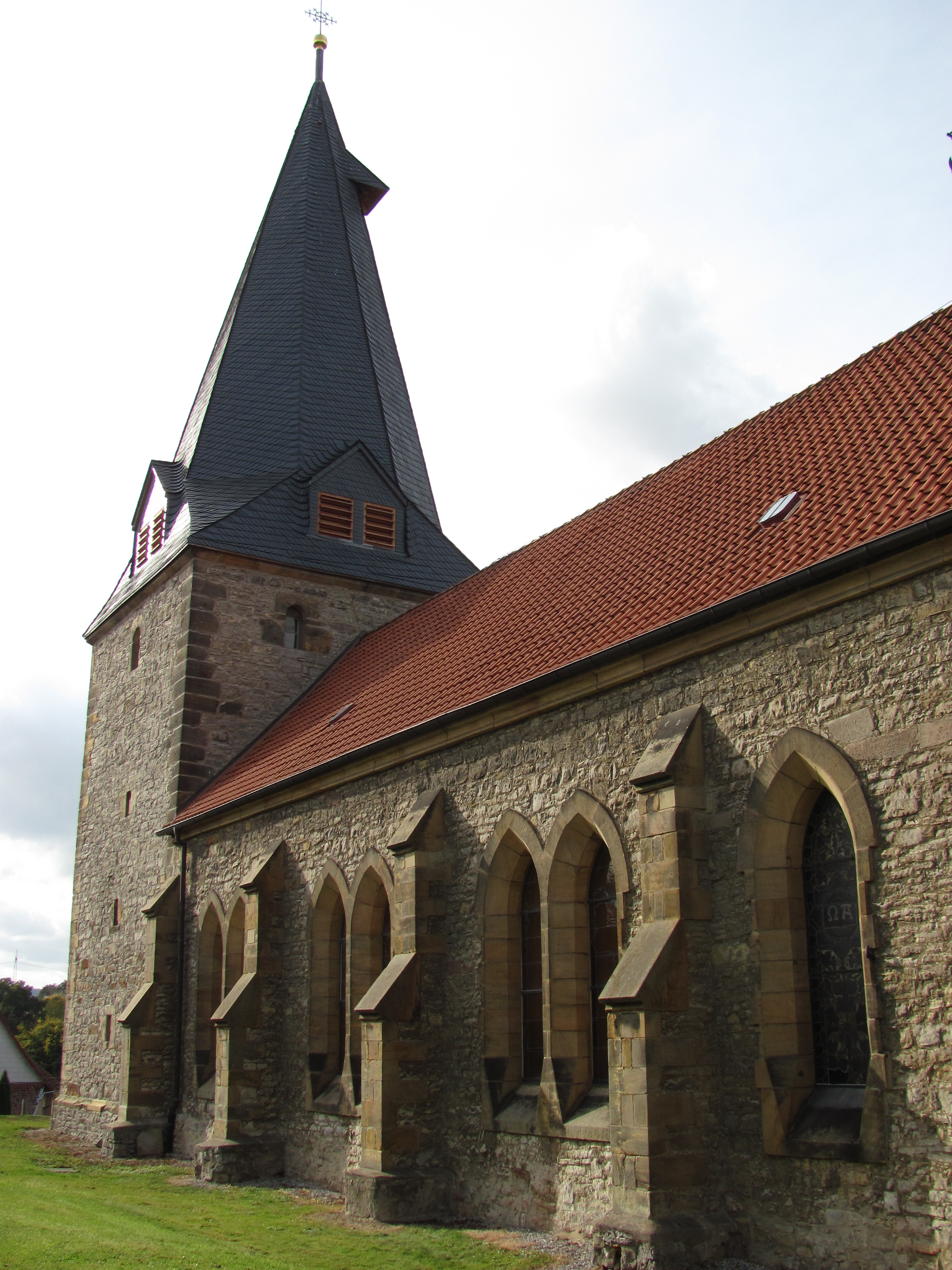 Protestant Church, Sehlem near Hildesheim, Lower Saxony, Germany.